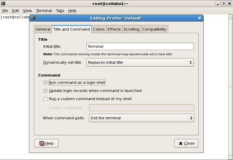 gnome terminal, Profile configuration window